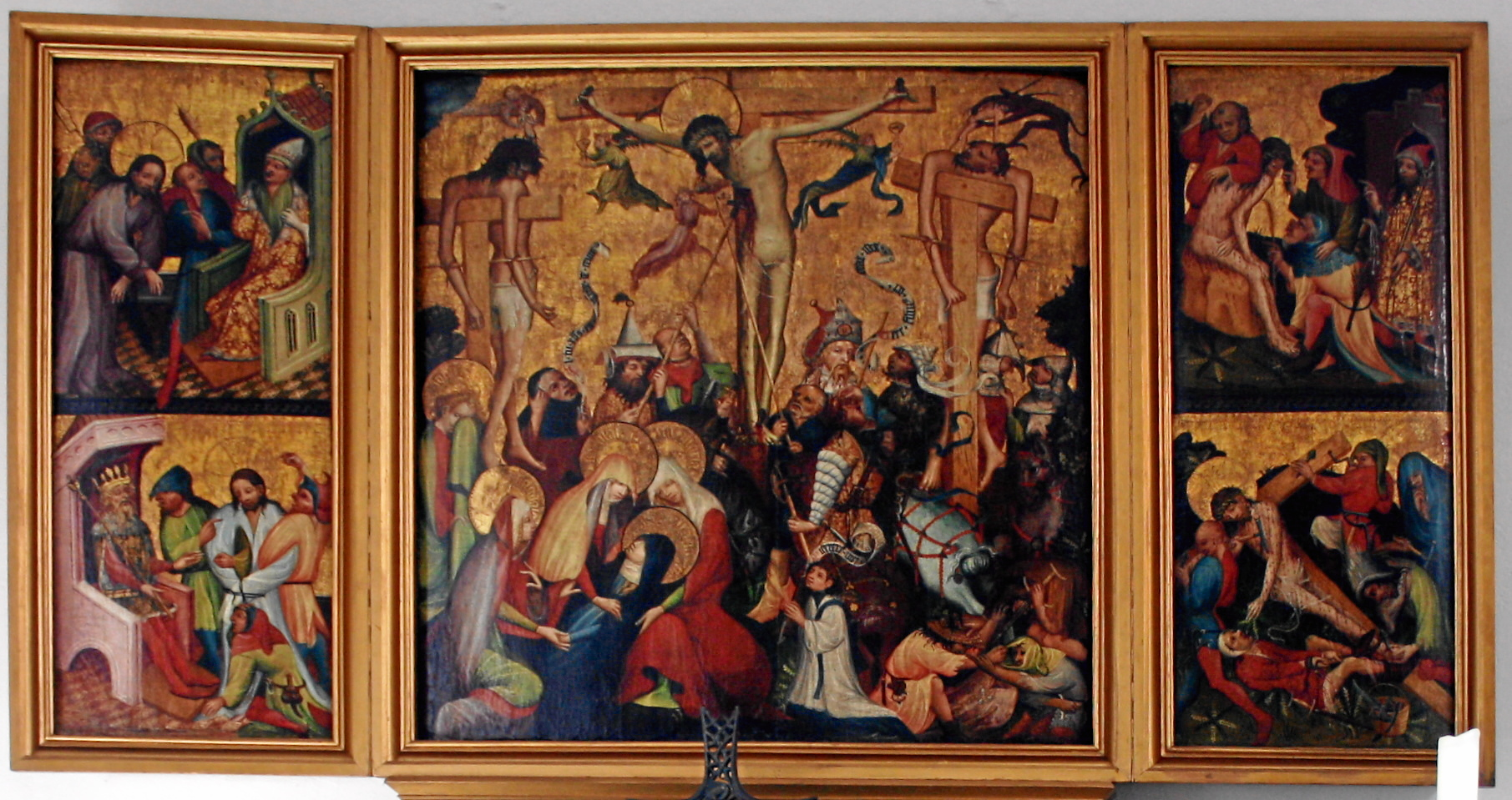 Idar-Oberstein, Germany. Rock church, altar painting of unknown artist, 14th or 15th century.